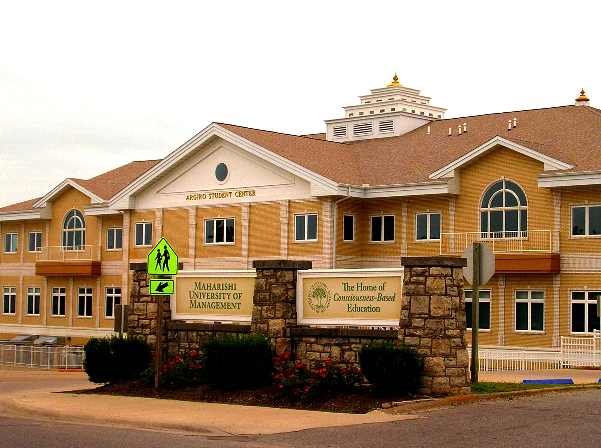 Maharishi University of Management, Fairfield IA, Argiro Student Center. This is a personal photo. It was taken by me (User: Keithbob) I release all rights to the photo and it may be considered public domain.-- — Keithbob • Talk • 19:46, 7 July 2010 (UTC)